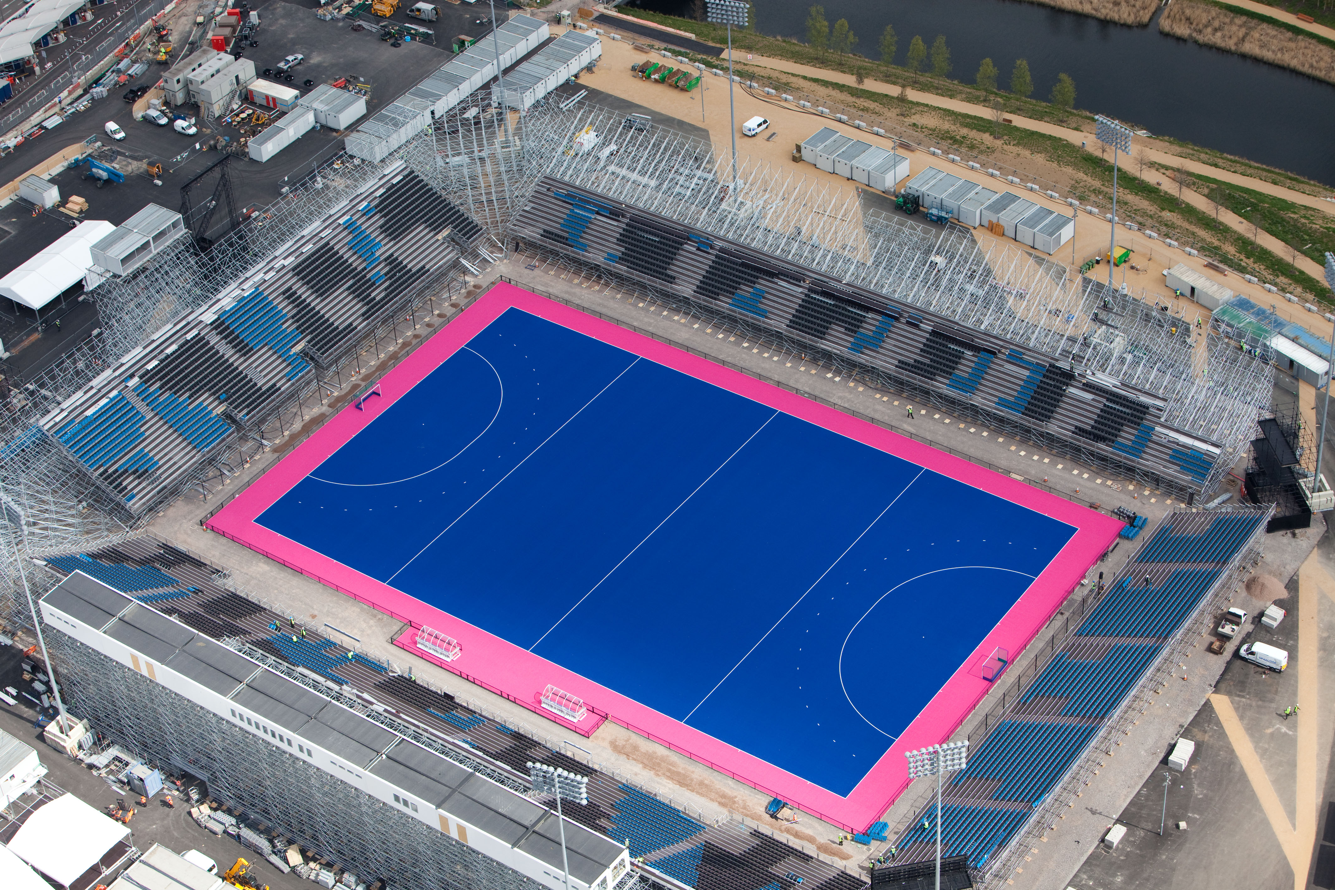 Aerial view of the Olympic Park showing the Riverbank Arena. Picture taken on 16 April 2012.